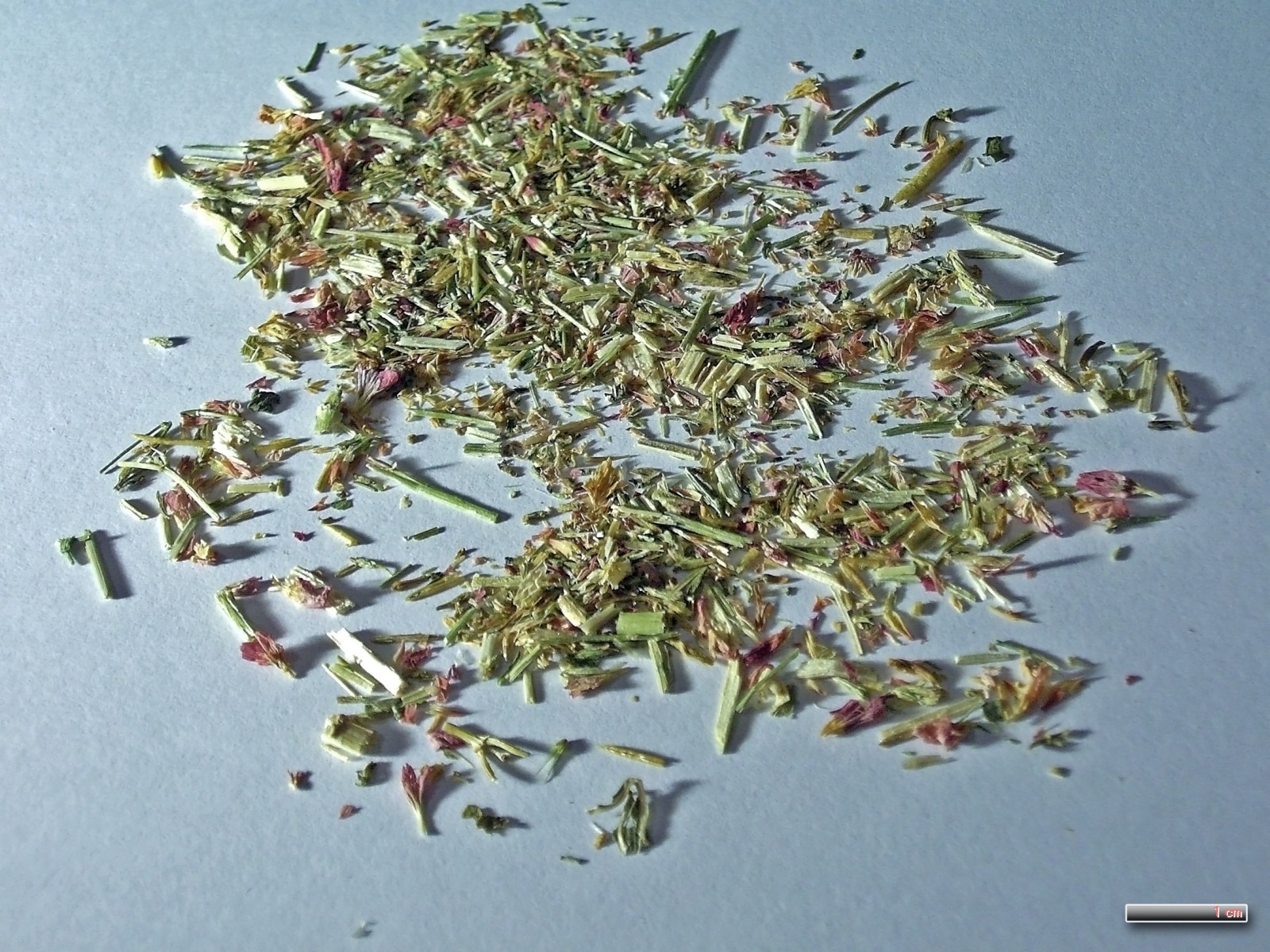 dried Centaurium erythraea, Centaurium (formerly Erythraea); Herb